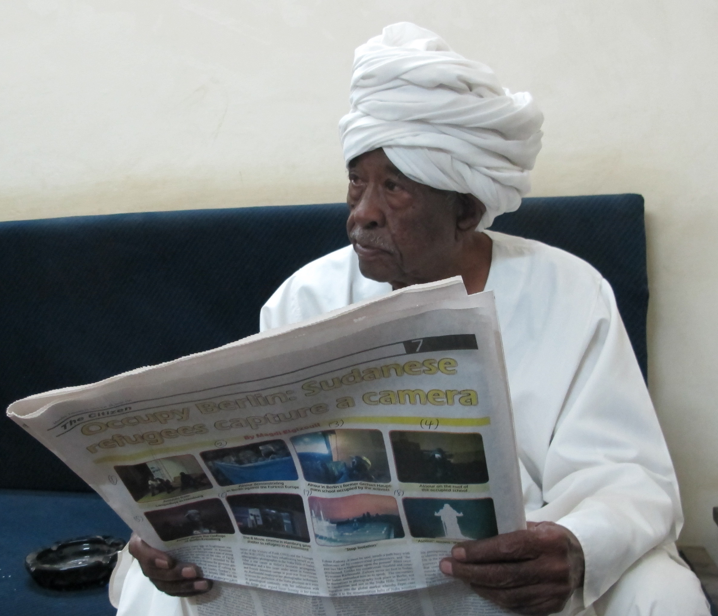 Veteran Sudanese journalist Mahgoub Mohamed Salih in the office of his Al Ayyam daily newspaper in Khartoum 2.